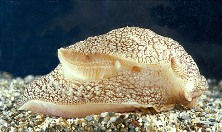 Photo of Pleurobranchaea meckelii Leue 1813, from the Mediterranean Sea.